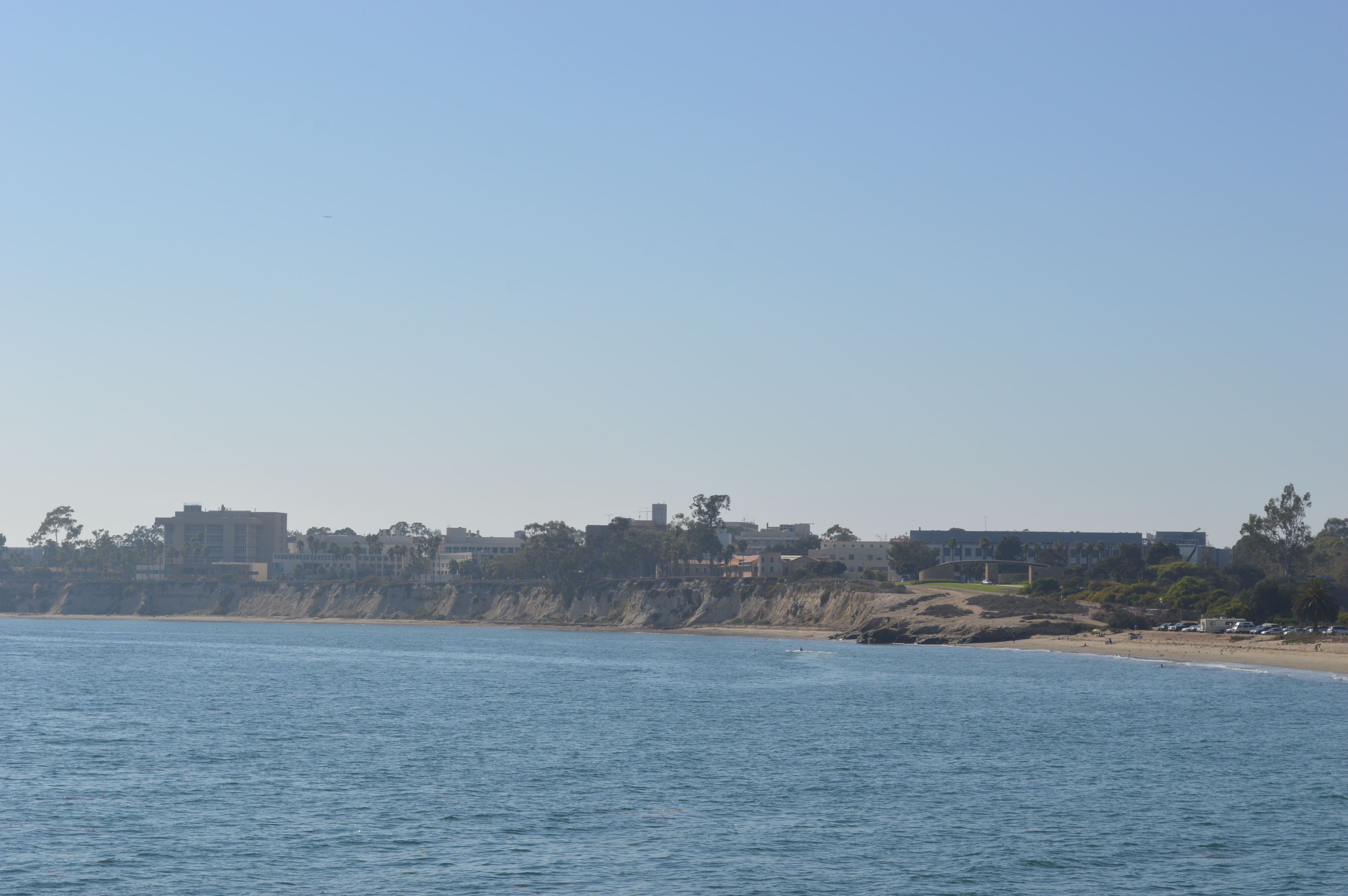 University of California, Santa Barbara (UCSB) seen from the Goleta Beach pier.